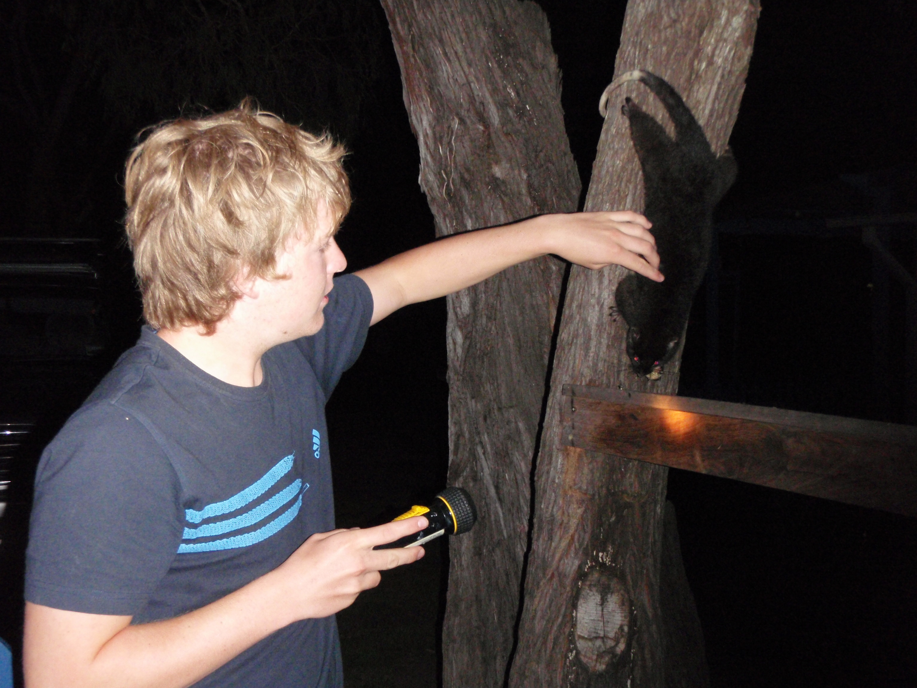 Tame Possum being fed banana in Busselton, Western Australia